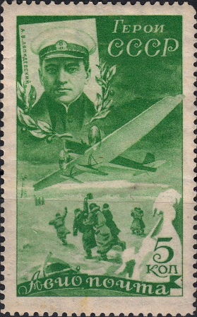 Soviet postage stamp of 5 kopecks. Anatoly Liapidevsky, Hero of the Soviet Union.